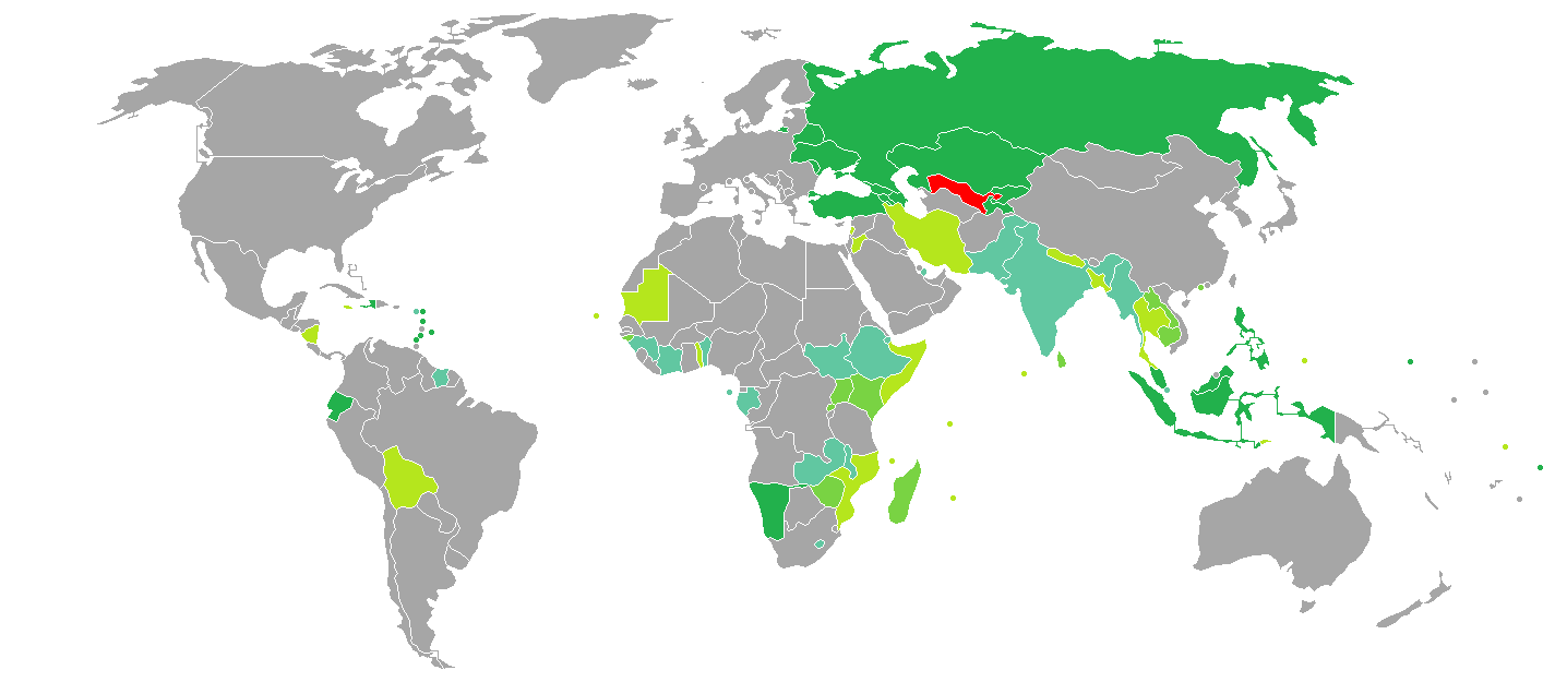 Visa requirements for Uzbekistani citizens